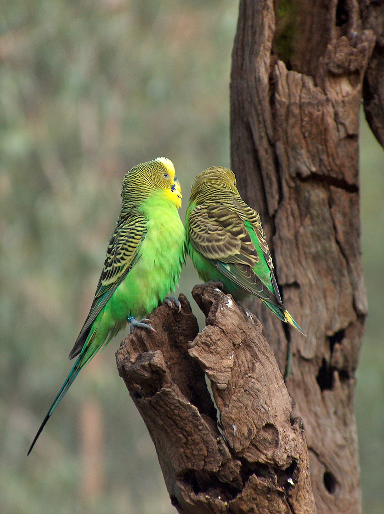 Two Budgerigars in Australia.